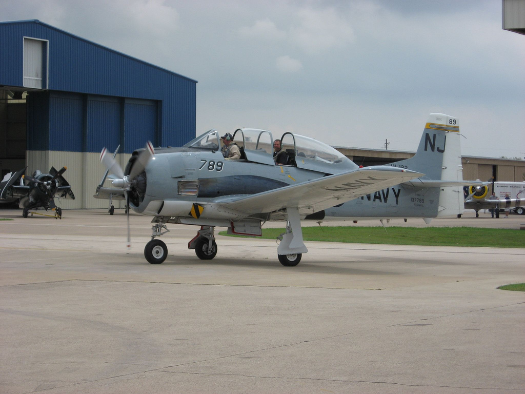 North American T-28B Trojan displayed at the Cavanaugh Flight Museum, TX.